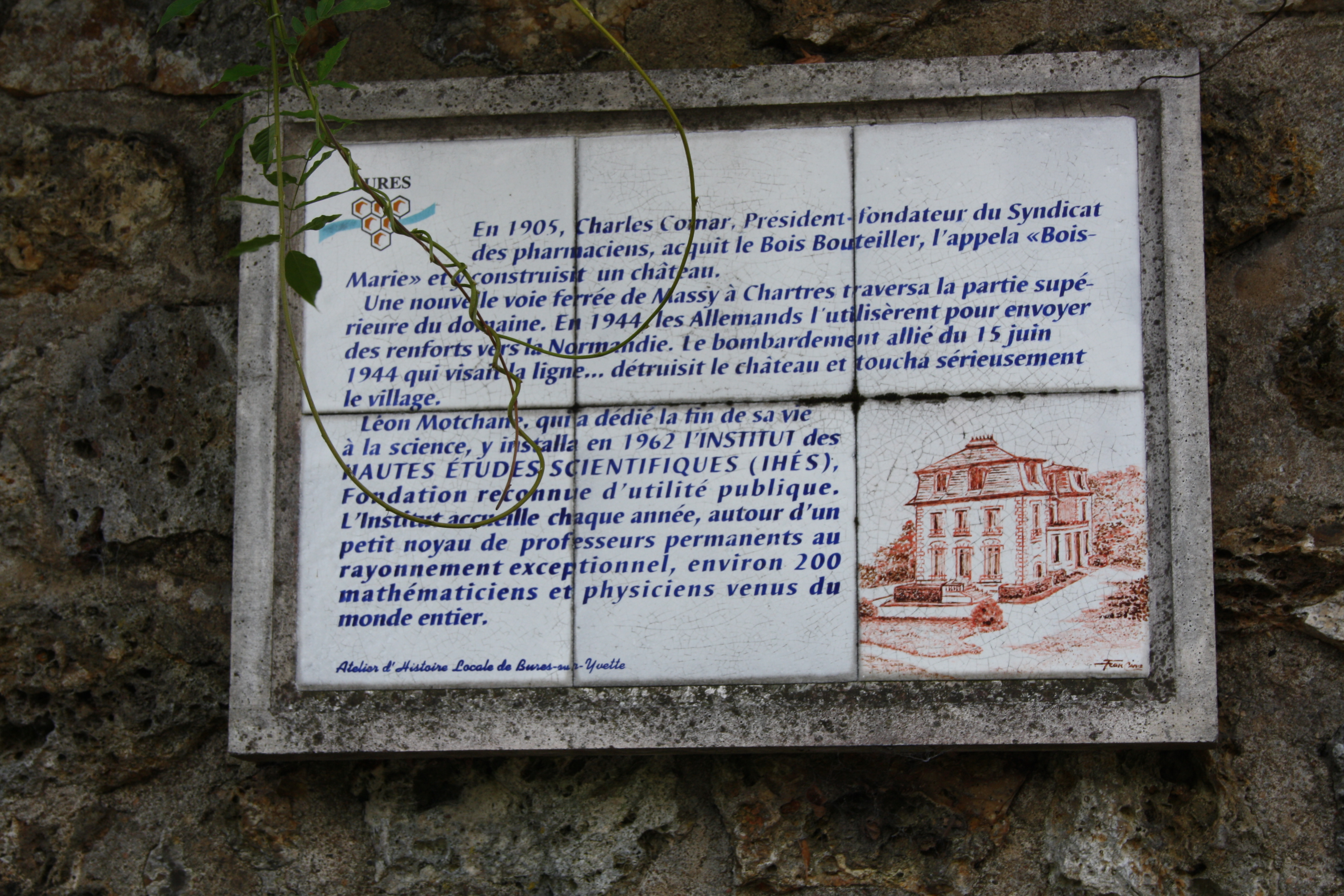 View of Bures-sur-Yvette, France.